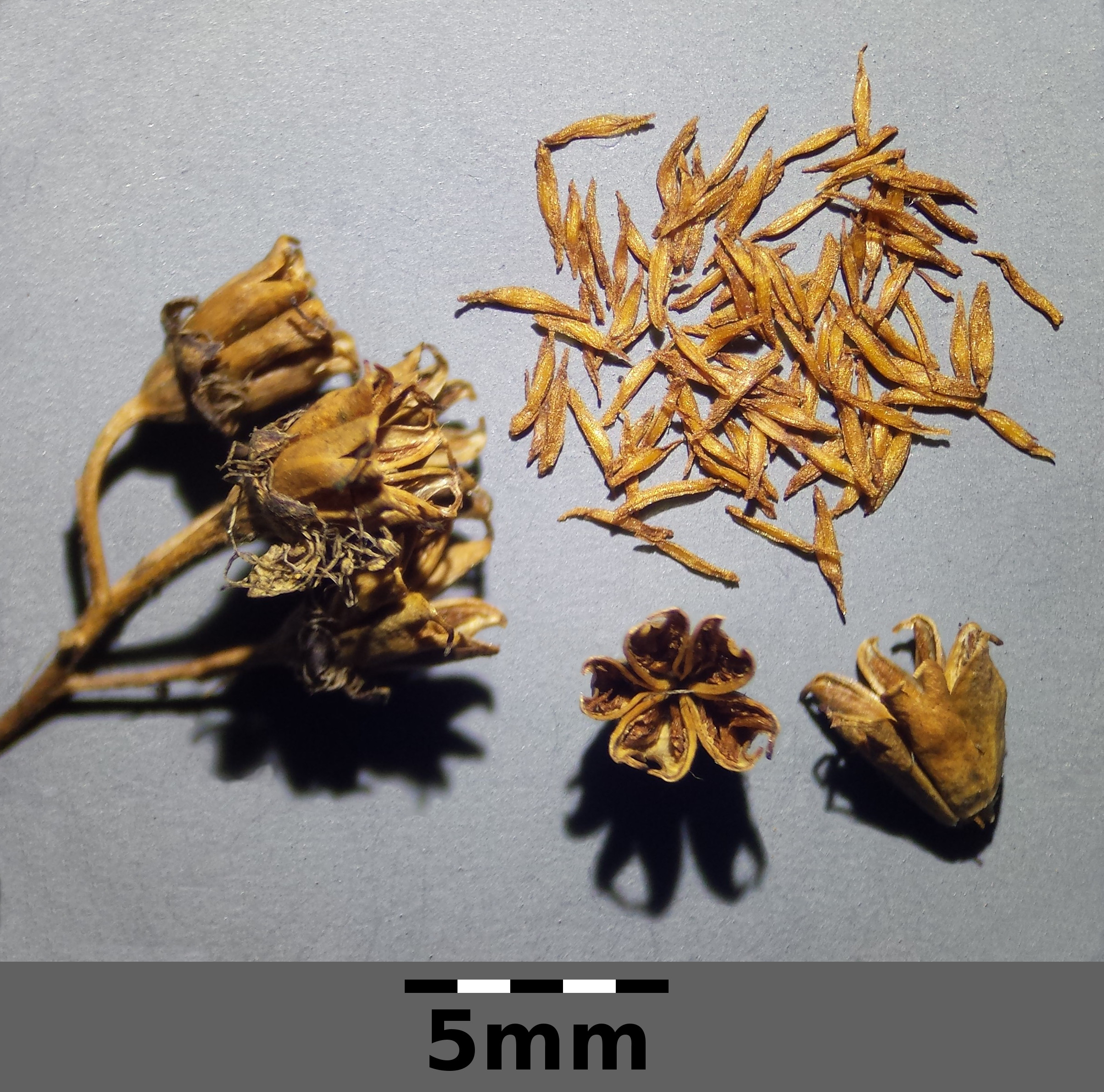 Fruits woth seeds Taxonym: Spiraea salicifolia ss Fischer et al. EfÖLS 2008 Location: Kamp river near Rappottenstein, district Zwettl, Lower Austria - ca. 650 m a.s.l. (leg. 2014-12-04) Habitat: shrubbery next to a river bank